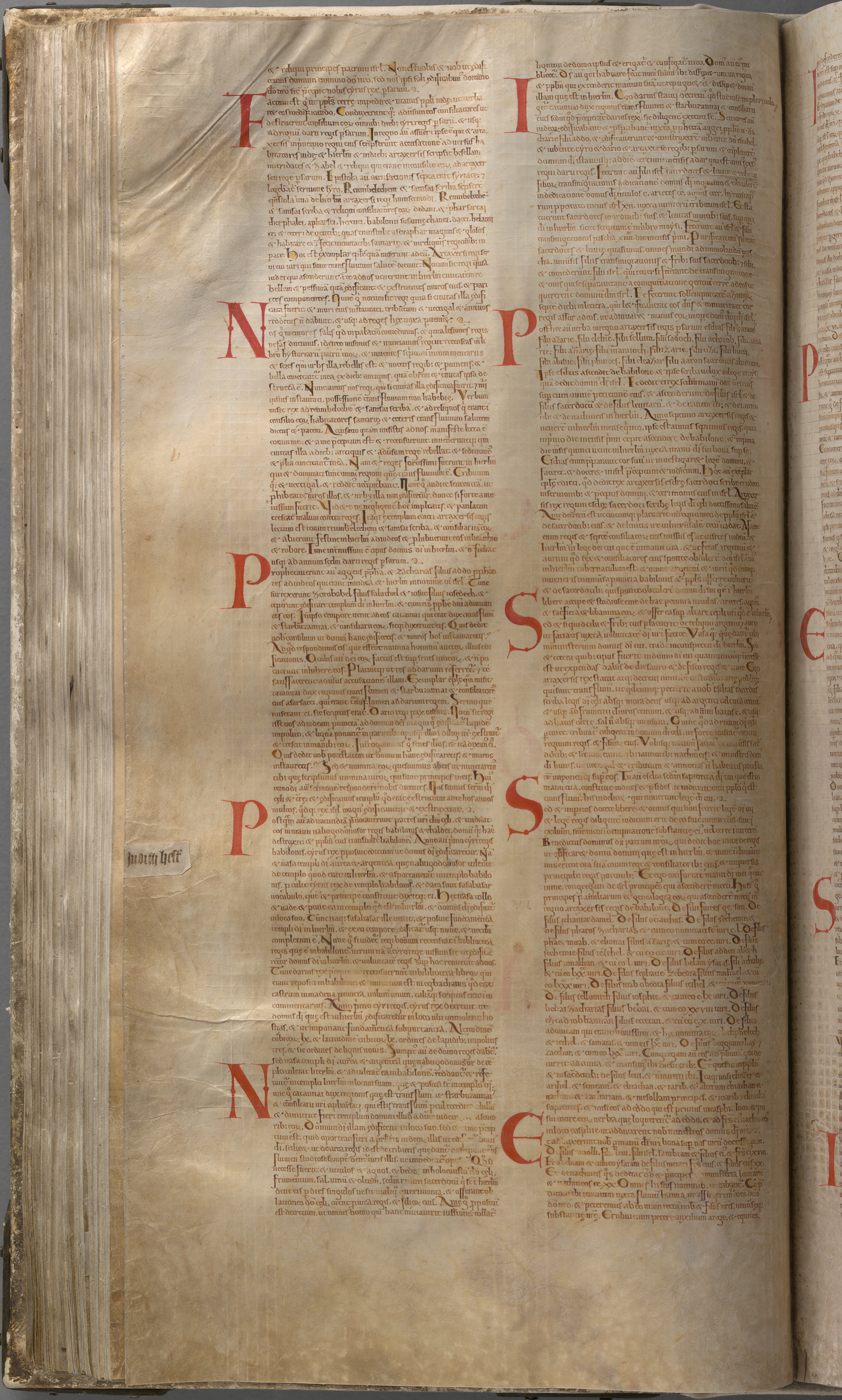 Giant Book), the largest extant medieval manuscript in the world. It is also known as the Devil's Bible because of a large illustration of the devil on the inside and the legend surrounding its creation. It is thought to have been created in the early 13th century in the Benedictine monastery of Podlažice in Bohemia (modern Czech Republic). It contains the Vulgate Bible as well as many historical documents all written in Latin. During the Thirty Years' War in 1648, the entire collection was taken by the Swedish army as plunder, and now it is preserved at the National Library of Sweden in Stockholm, though it is not normally on display.